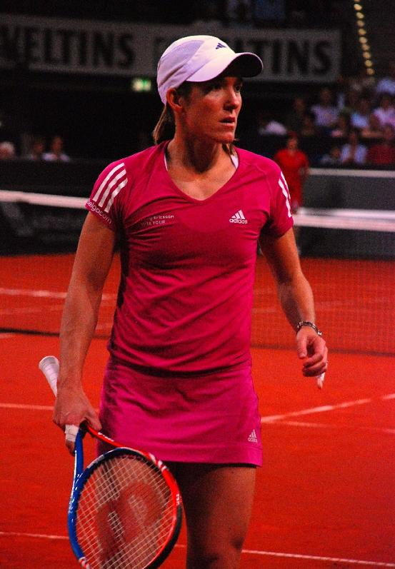 Justine Henin in Action winning the 2010 Stuttgart Porsche Cup